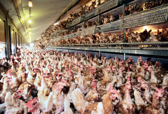 Free run hens. Picture taken in Israel by my friend Josh.